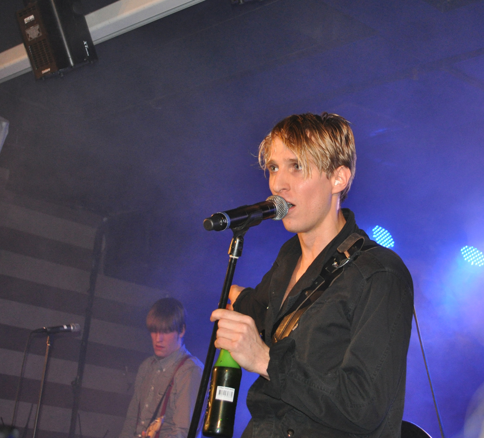 This is Love Antell, singer of Florence Valentin. From a concert in "Bygget" in Åre January 2010.